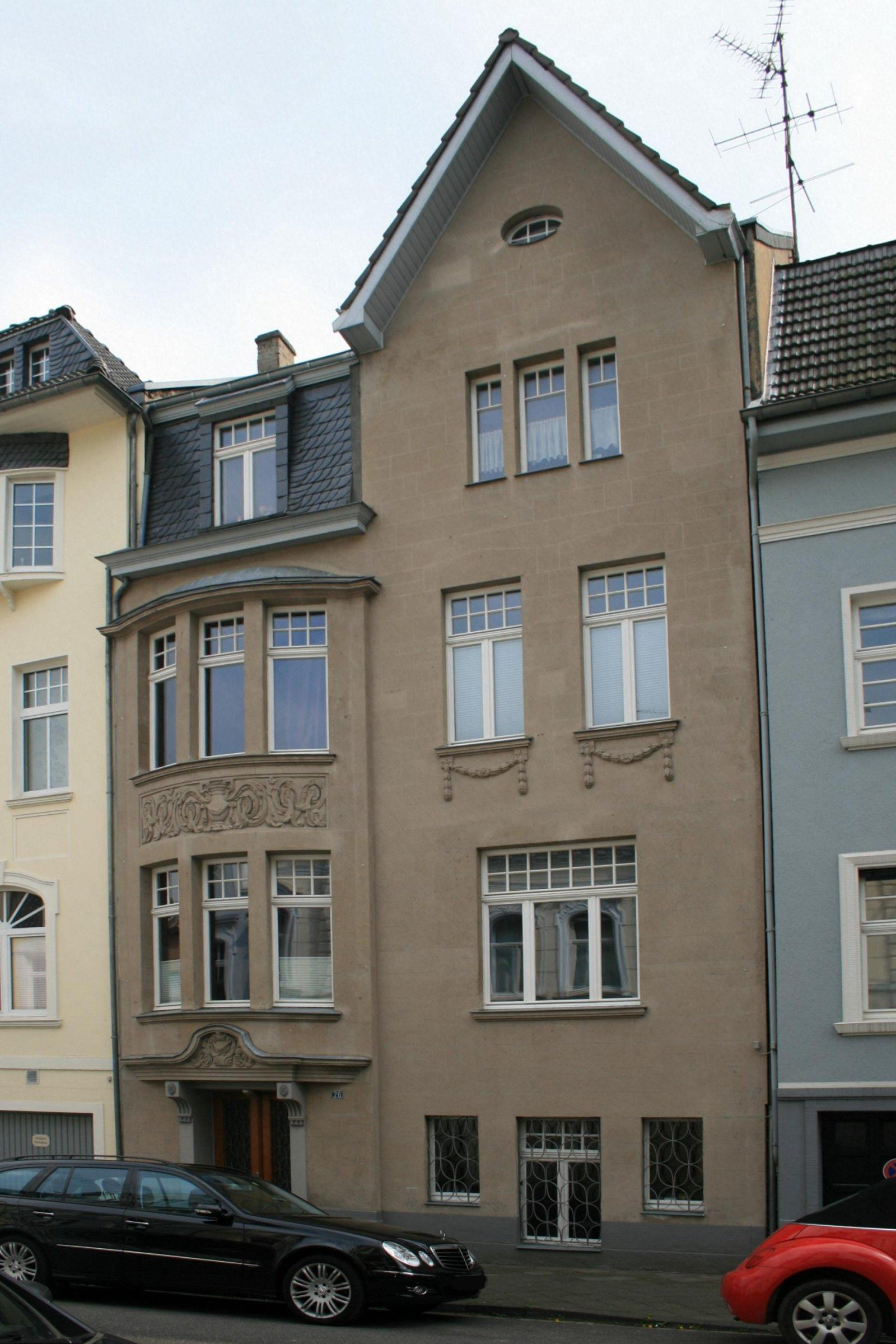 Cultural heritage monument No. H 081 in Mönchengladbach